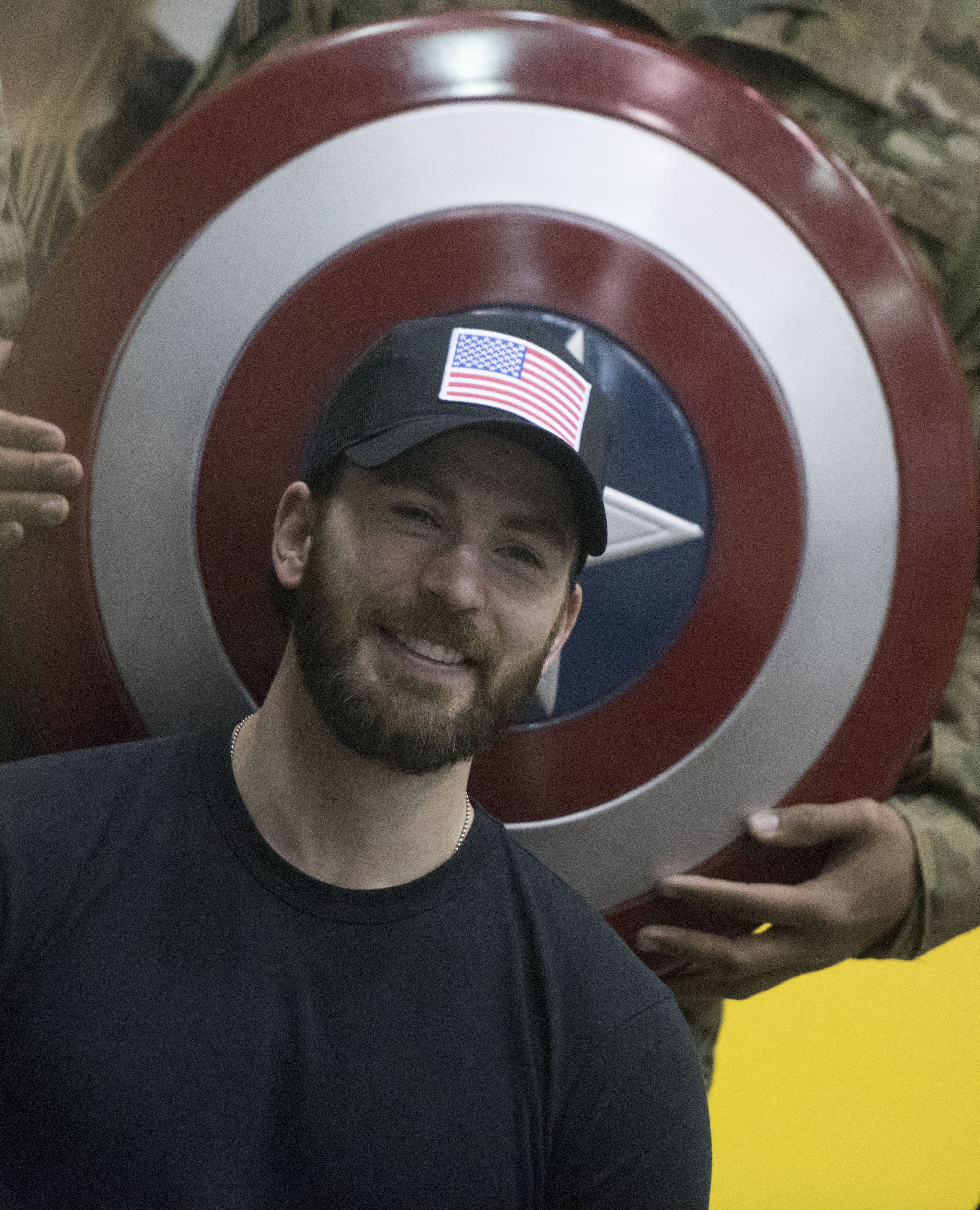 Scarlett Johansson and Chris Evans perform for service members during the USO Holiday Tour at Bagram Air Base, Afghanistan, Dec. 7, 2016. Marine Gen. Joseph F. Dunford, Jr., chairman of the Joint Chiefs of Staff, along with USO entertainers, visited service members who are deployed from home during the holidays at various locations across the globe. This year’s entertainers included actors Chris Evans, actress Scarlett Johansson, NBA Legend Ray Allen, 4-time Olympic Medalist Maya DiRado, Country Music Singer Craig Campbell, and mentalist Jim Karol. (DoD photo by Navy Petty Officer 2nd Class Dominique A. Pineiro/Released)